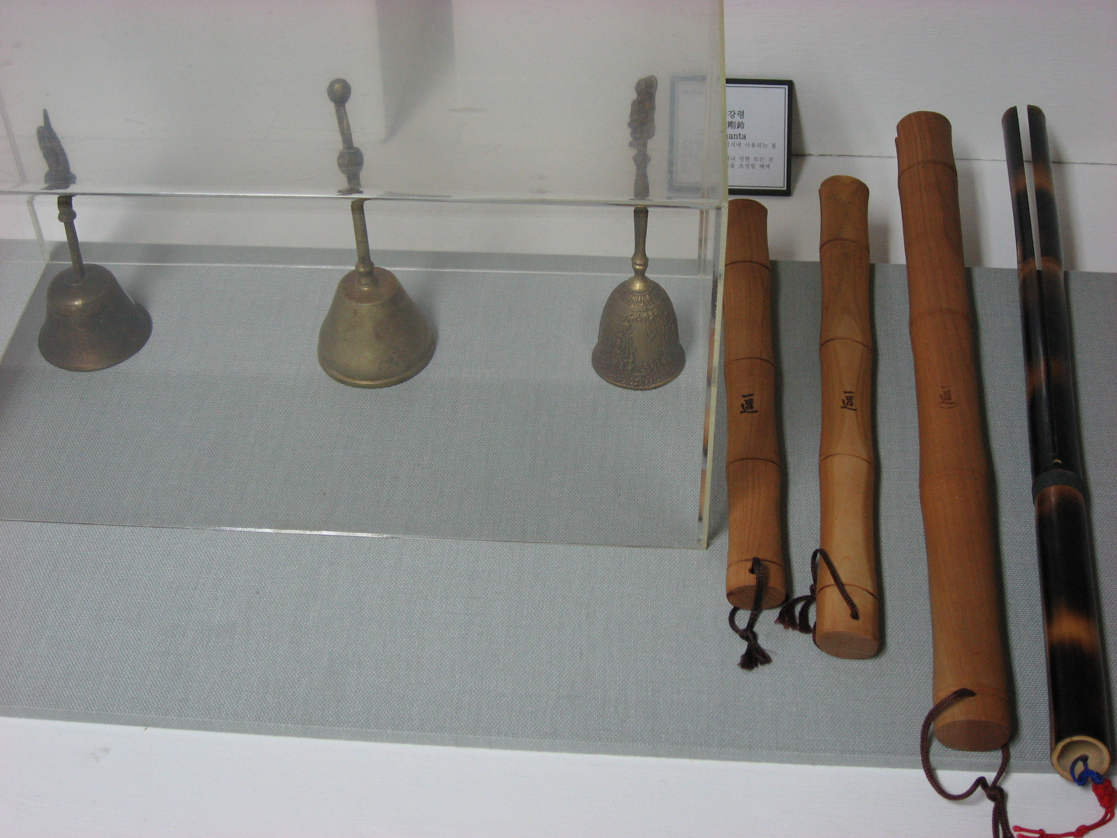 Bells and pipes made during Joseon Dynasty of Korea.